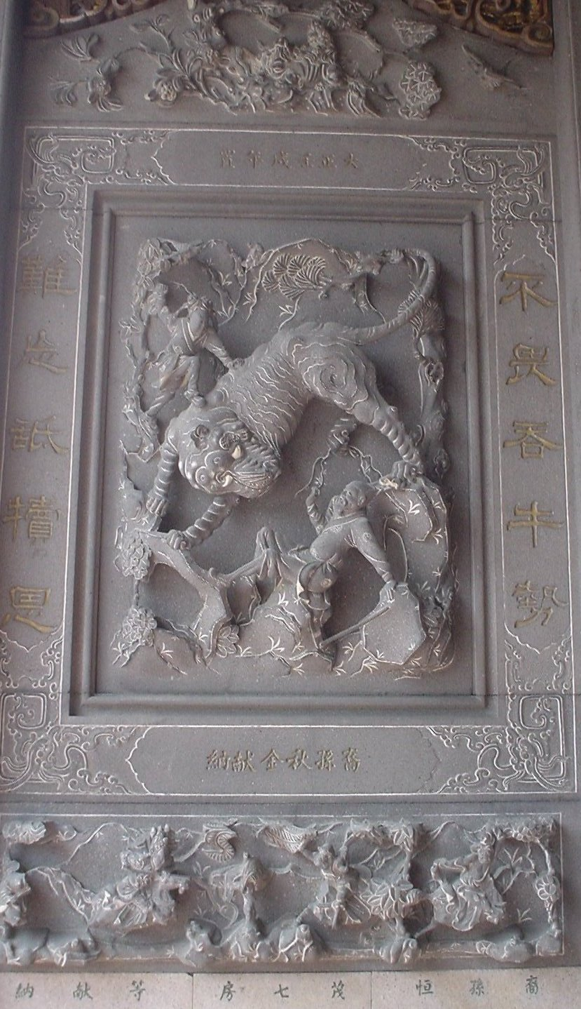 This is a stone carving at the Lin Family Temple in Taichung, Taiwan. Photo taken on October 12, 2006.